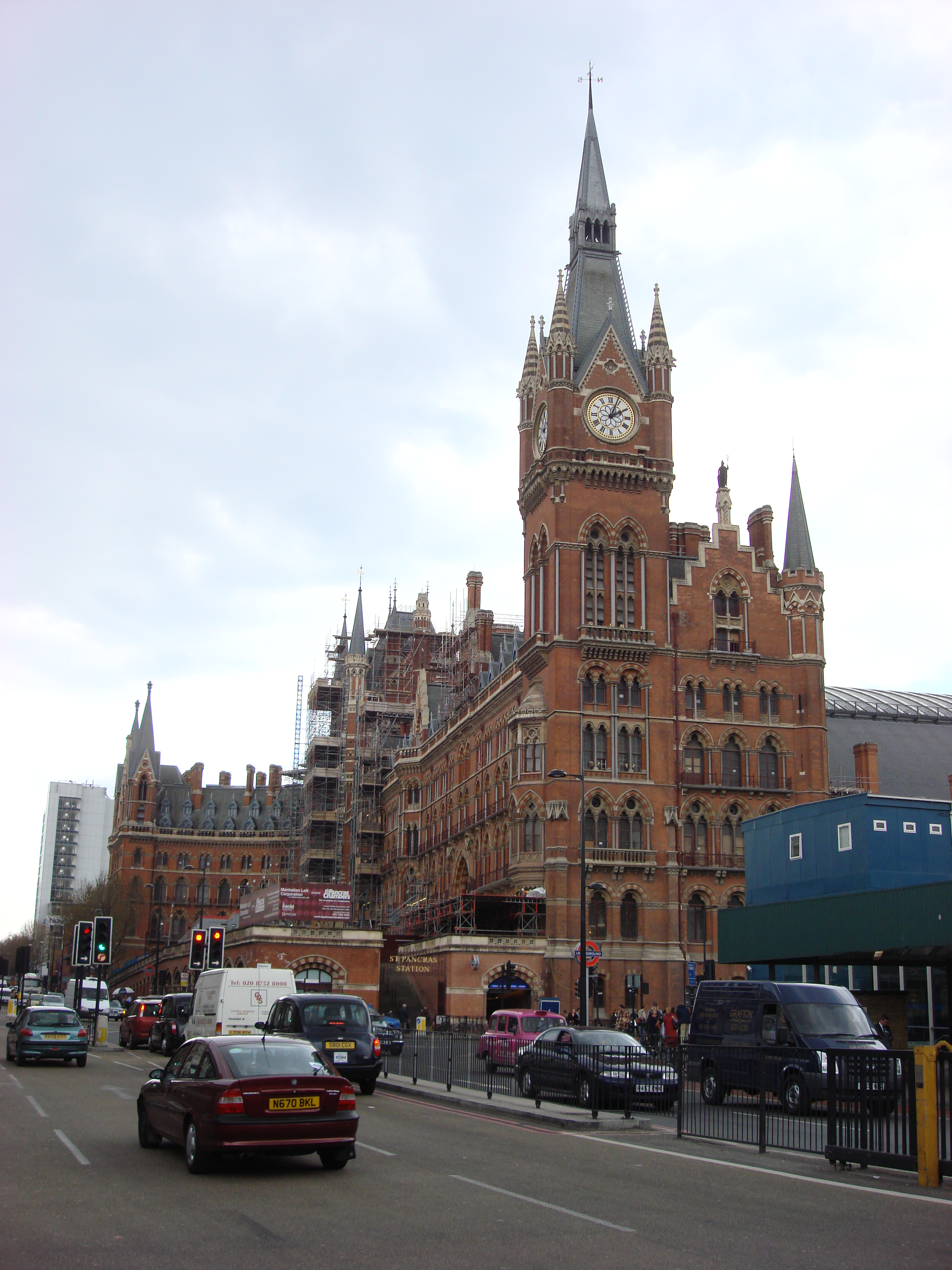 The former Midland Grand Hotel at the front of St Pancras train station